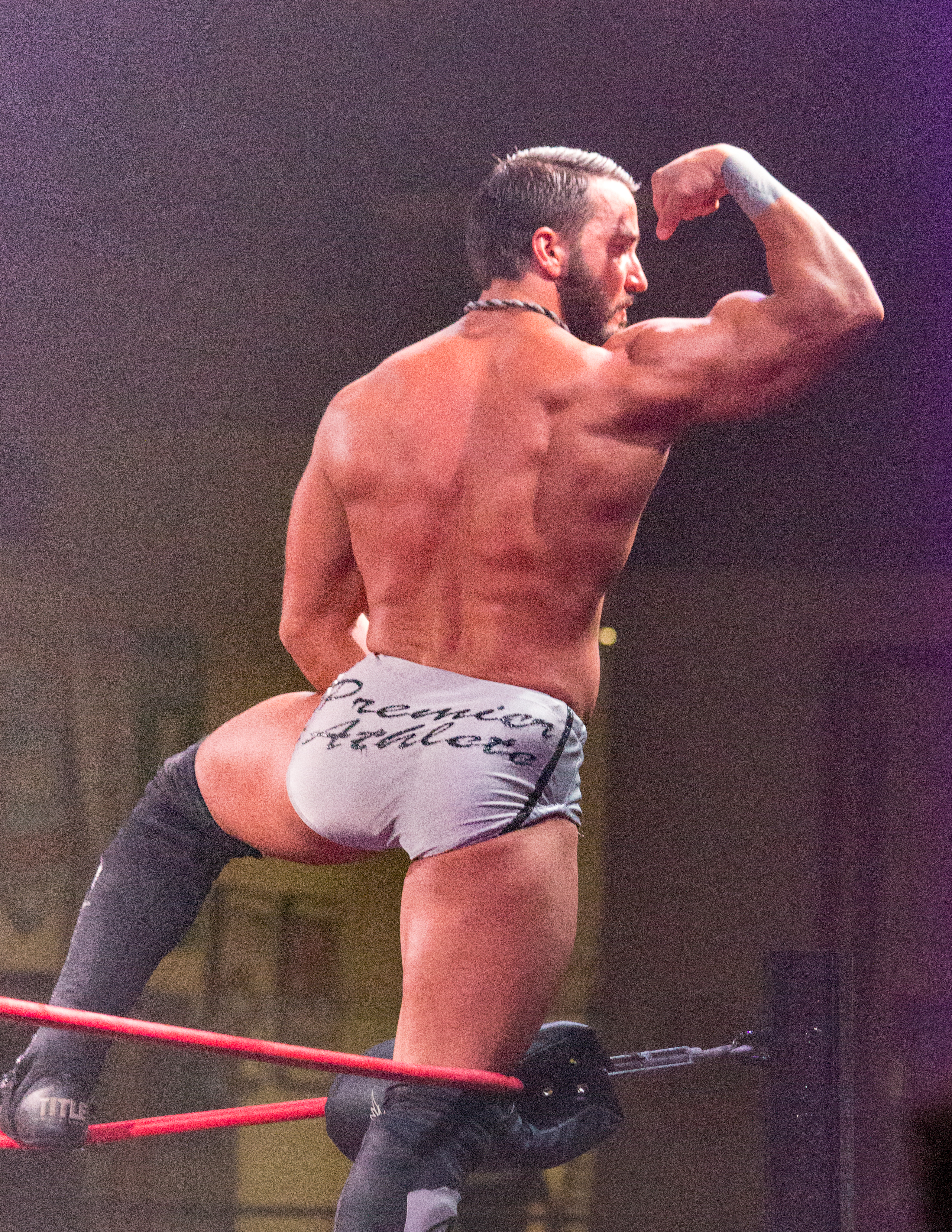 Tony Nese posing during his ring entrance at House of Hardcore IX at the Ted Reeve Arena on Toronto, ON